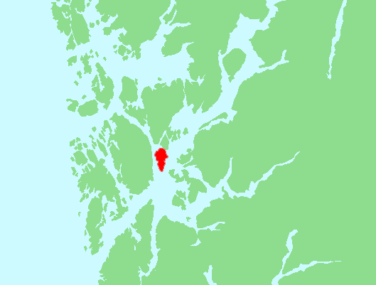 Locator map of Huglo, Hordaland, Norway